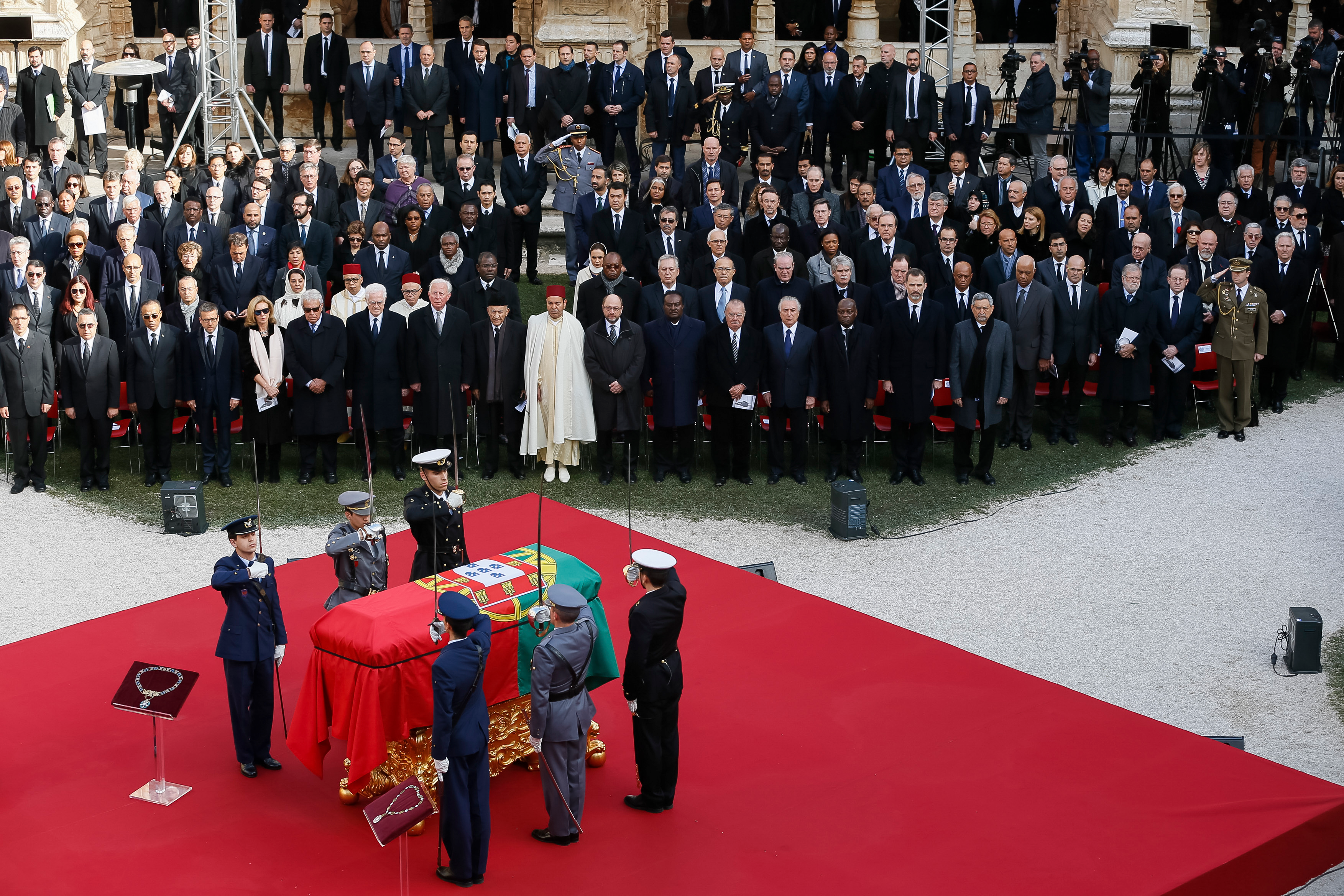 Funeral of the former President of the Portuguese Republic, Mário Soares, in the cloister of the Monastery of the Hieronymites, in Belém, Lisbon, Portugal, 10 January 2017.